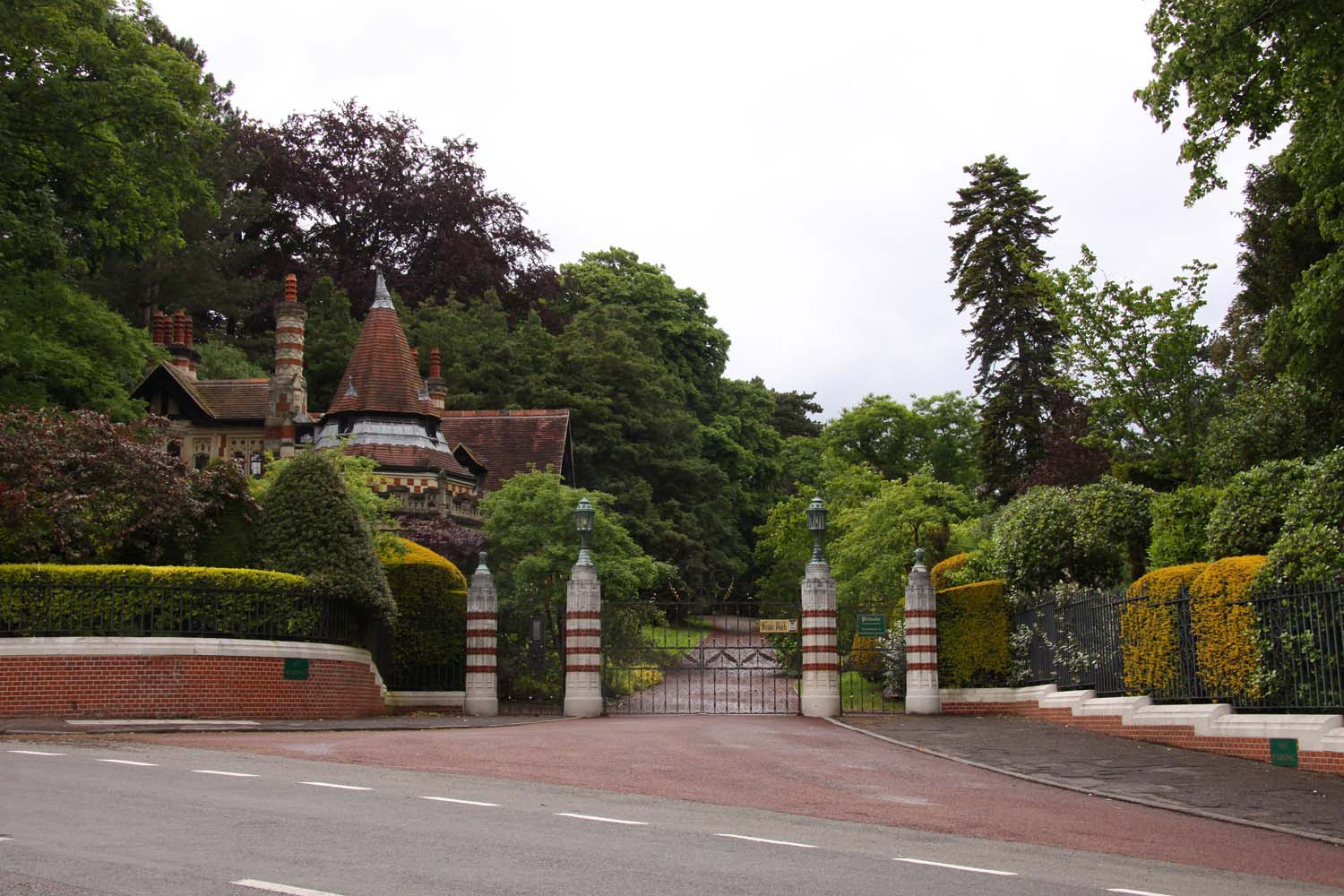 The entrance to Friar Park. Friar Park is a 120-room Victorian neo-Gothic mansion in Henley-on-Thames once owned by an eccentric lawyer named Sir Frank Crisp from 1875 and purchased in January 1970 by musician George Harrison.